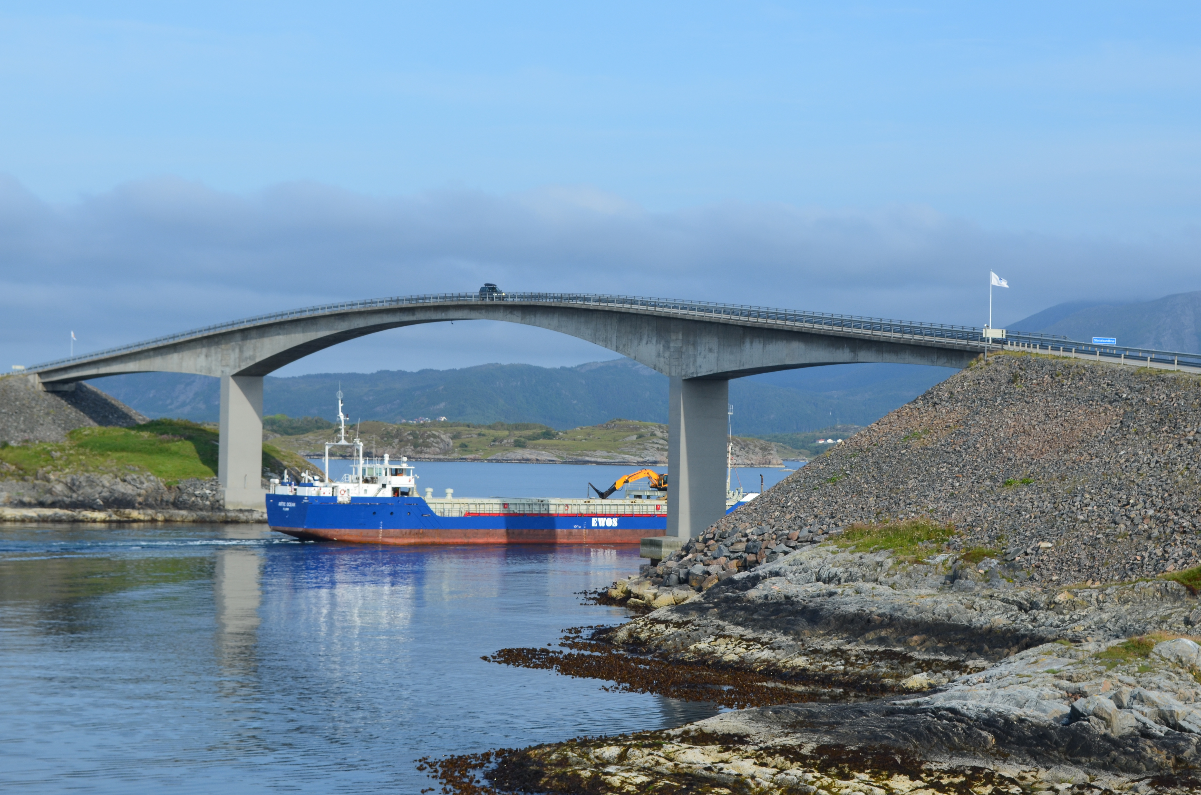 Atlantic Road, Norway